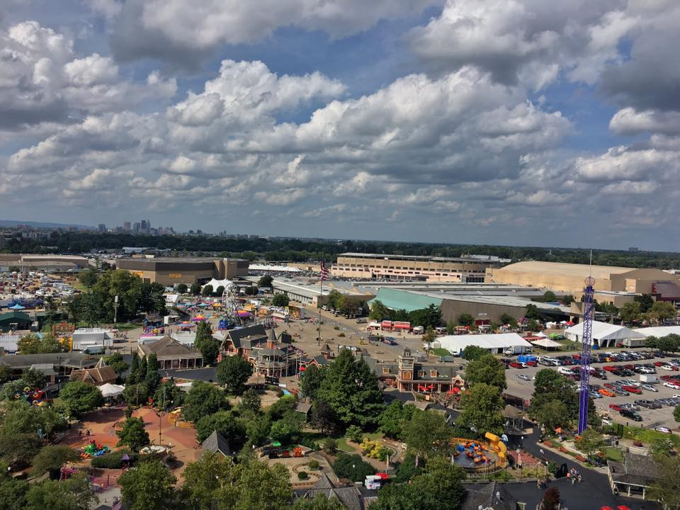 State Fair from the Top of the Ferris Wheel